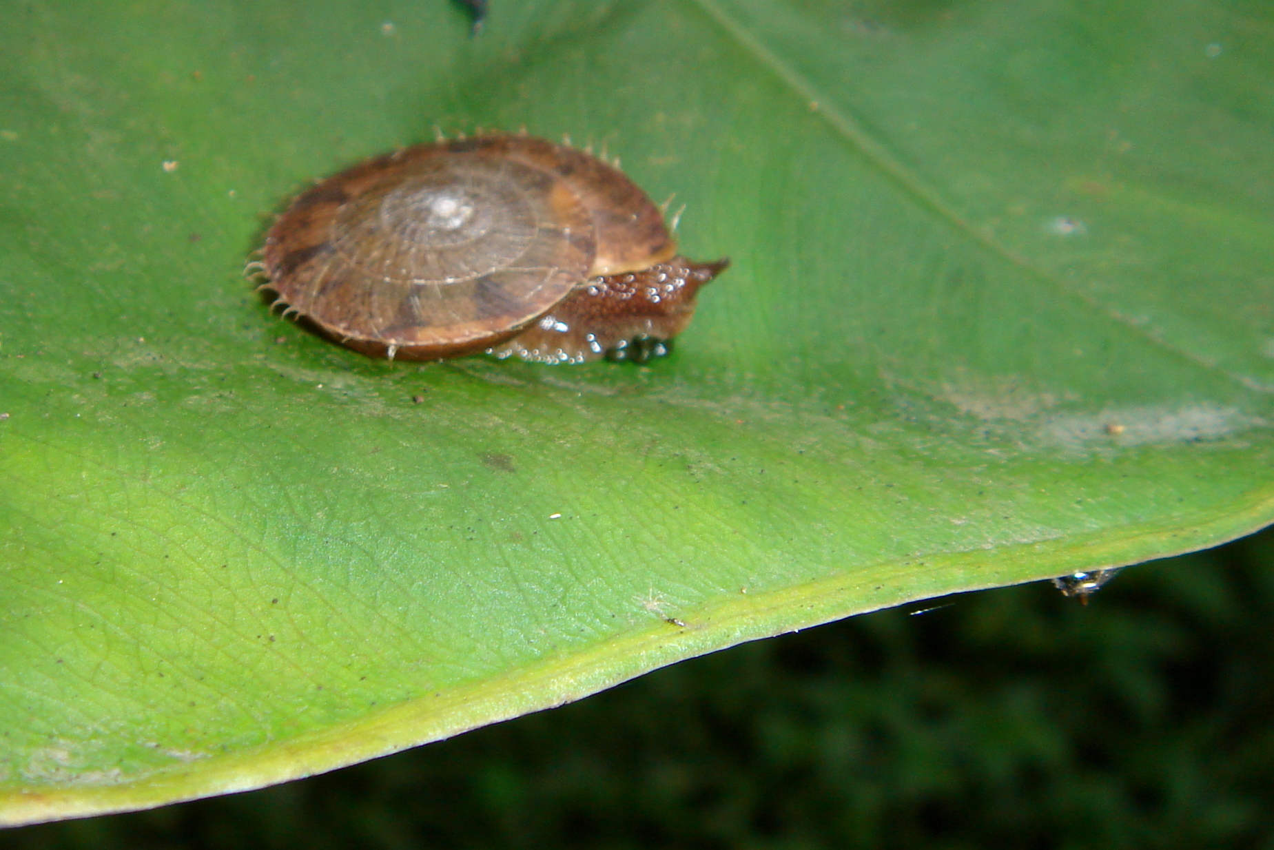 Aegista impexa from Alishan National Scenic Area, Chiayi County, Taiwan